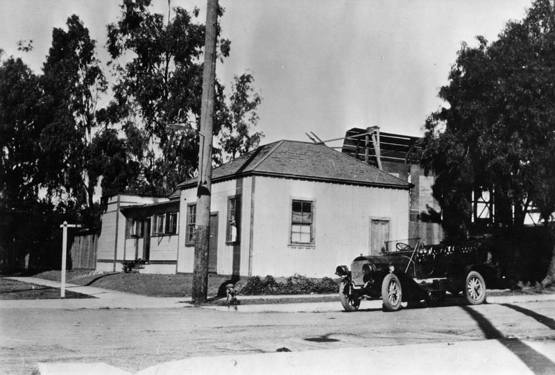 The first motion picture studio in Hollywood was built by David Horseley for Christie Film Co. The building is at the corner of Sunset Blvd. and Gower Street. In this photograph taken in 1911, no signs are visible anywhere on the building. An automobile is parked outside on Gower Street, visible at right.